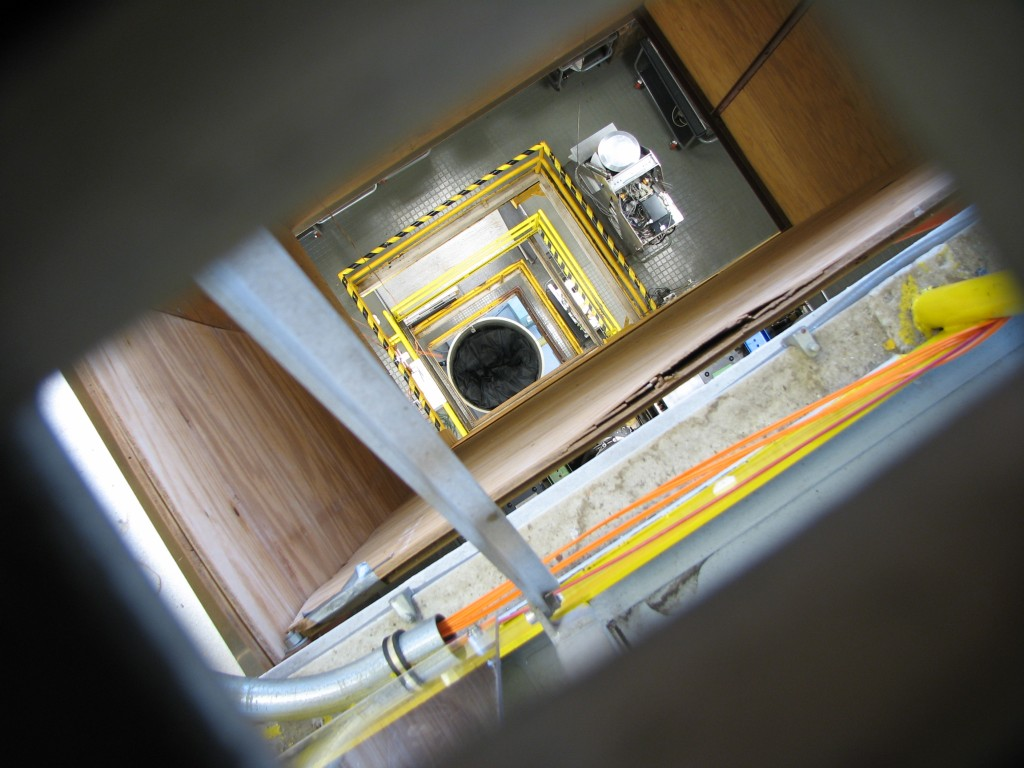 A view downward of the shaft of the 2.2 second drop tower.